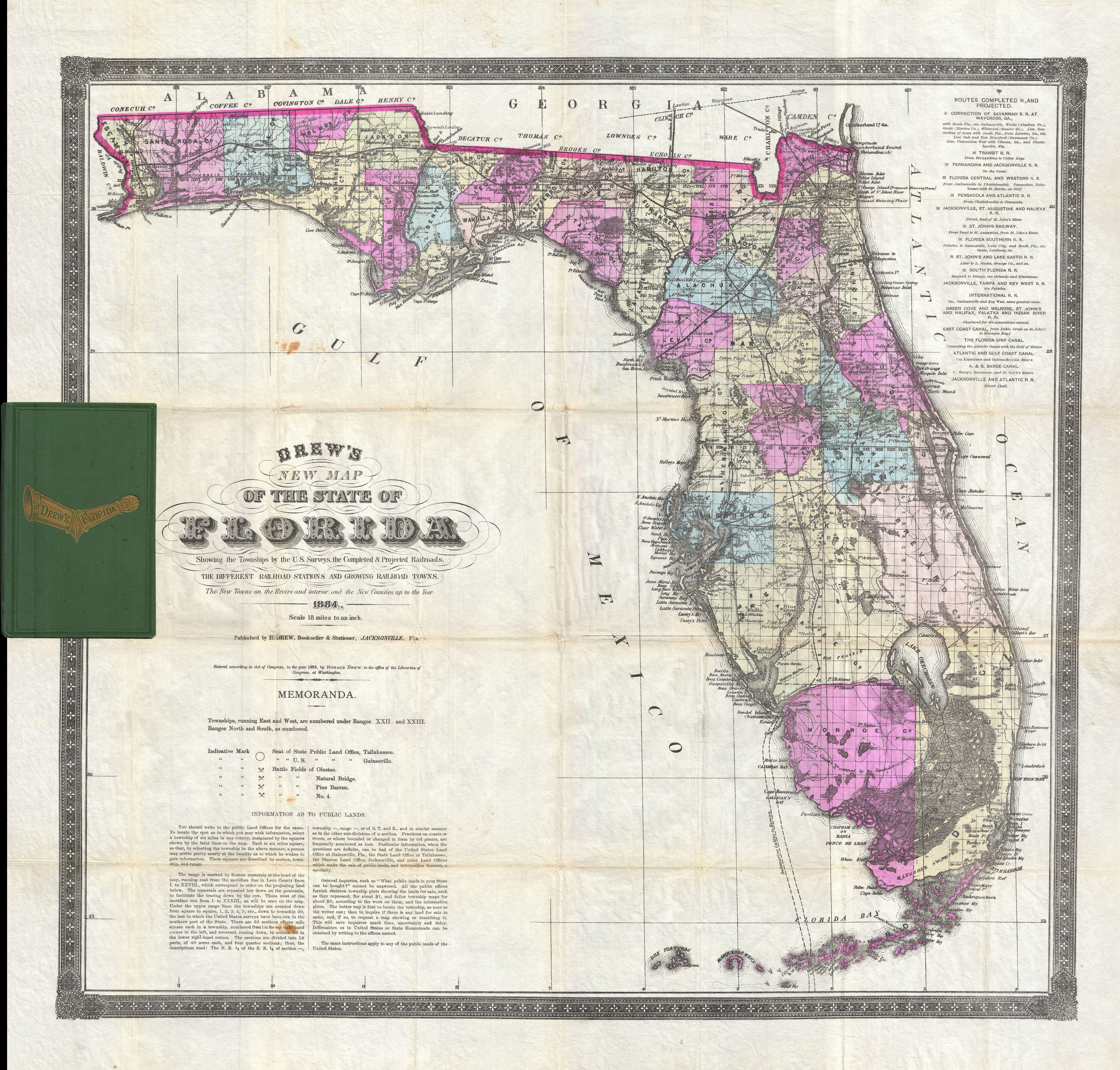 An extremely scarce and important map of Florida drawn by Horace Drew in 1884. This highly uncommon map, the earliest known example of which was issued in 1867, is considered to be the only pocket map of Florida actually printed in Florida. The first edition of this map was printed by Columbus Drew from his offices in Jacksonville Florida and subsequently updated in an unknown number of editions into the 1880s. This example was printed by Horace Drew, son and successor to Columbus. It reflects the rapid and hopeful development of Florida through the middle and late 19 century, with numerous railways, roads, and canals noted. Of particular note is the Lucie Canal, shown here leading from Lake Okeechobee to the Atlantic. This canal was part of a plan, supported by Drew, to drain the Everglades via a series of well placed water channels. Fortunately the Lucie canal was never built and the unique Everglades biosphere has been preserved for us to enjoy today. Also of interest is the extensive notation in the lower left quadrant regarding the Florida Land Survey. Even in the late 19th century much of Florida remained federally administrated Public Land. It was the work of the Florida Land Survey, upon which this map is based, to plat out the land for sale to settlers. Drew's notations explain the process and how do identify land available for purchase. Drew additionally notes the sites of various important battles during the Seminole Wars. Considered the Holy Grail of 19th century Florida cartography, this map is a must for any serious collection focusing on the American Southeast. Dated and copyrighted, Entered according to Act of Congress in the year 1884 by Horace Drew, in the office of the Librarian of Congress, at Washington.